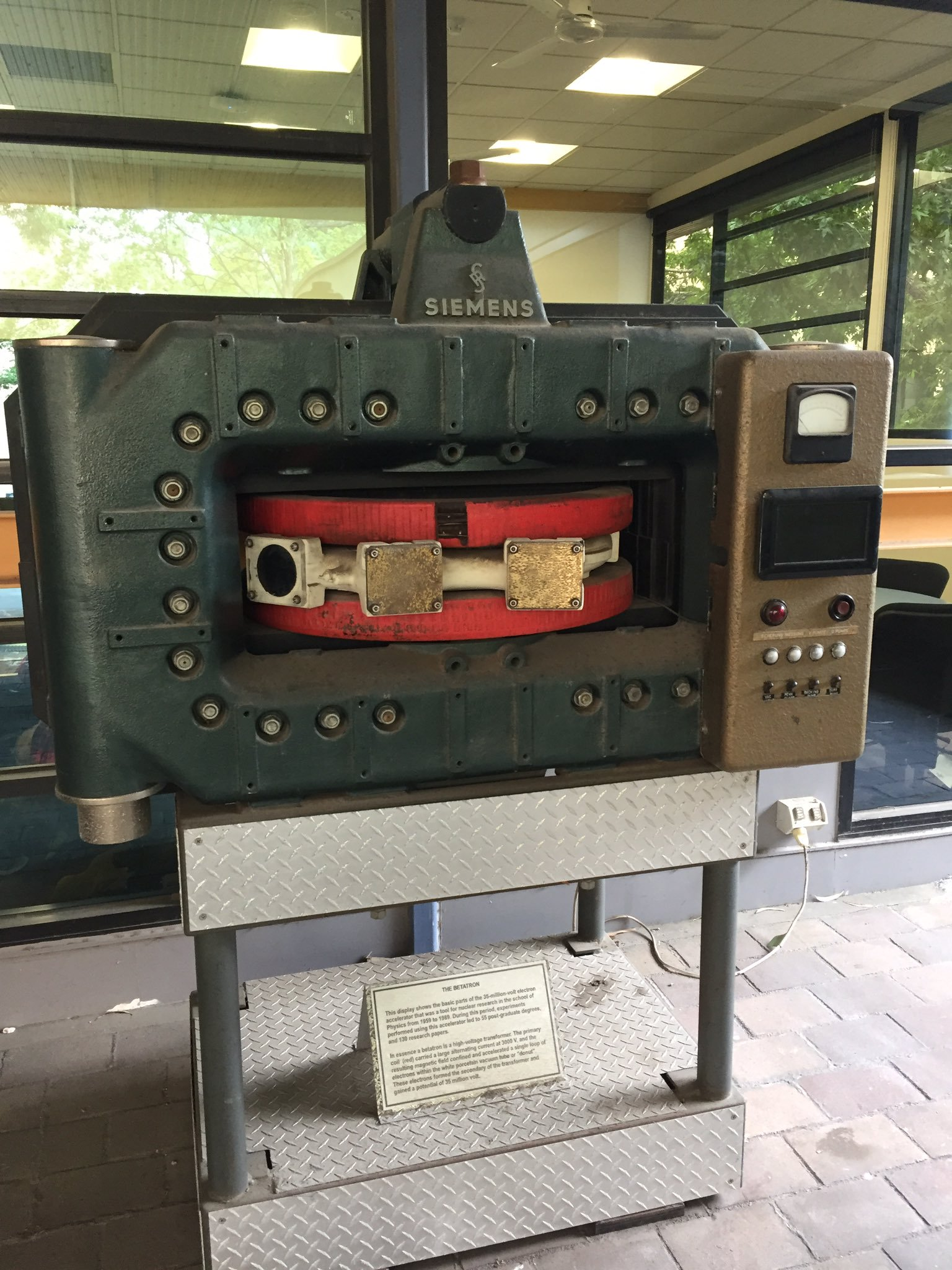 The 35 MeV betatron was manufactured by Siemens and purchased by the University of Melbourne in 1962. It was used primarily for photonuclear research and ceased operation in 1986. It was then re-worked into an art exhibit (replacing the metal coils with wood) and is located on the Podium level of the David Caro Building.